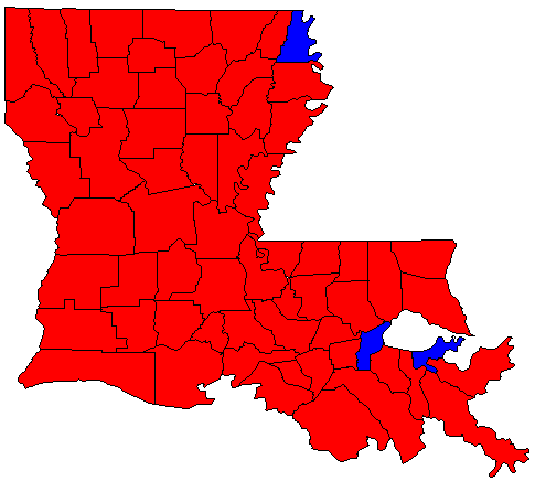 Louisiana Agricultural Commissioner parish map, 2011